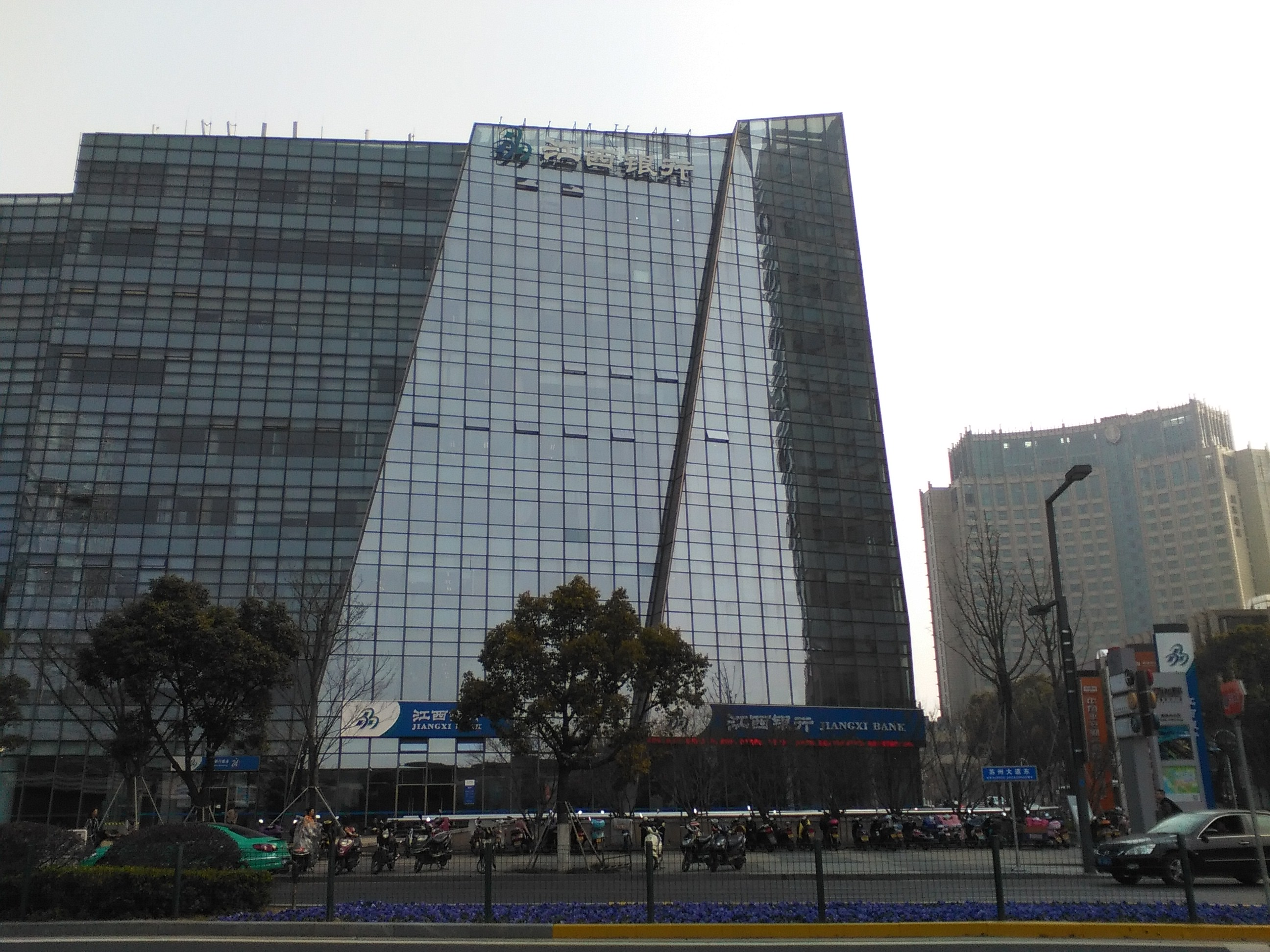 Jiangxi Bank Suzhou Branch